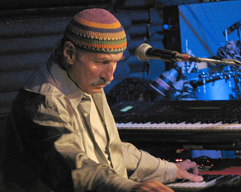 Joe Zawinul (famous jazz musician) live with his "The Zawinul Syndicate" in Freiburg i. Br., Germany, at "Jazzhaus" - March 28, 2007